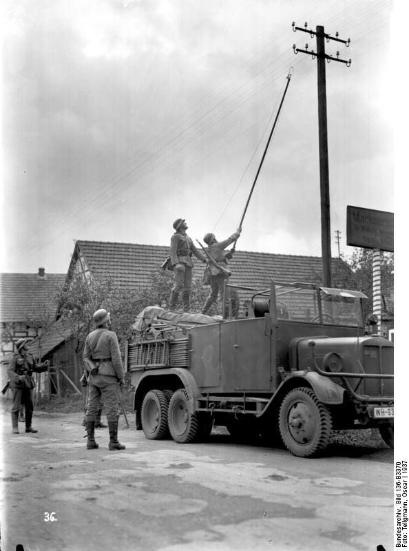 Bussing-NAG G31 truck